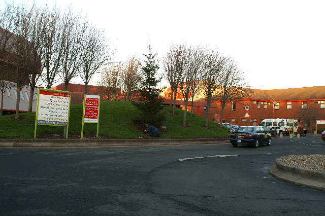 District General Hospital entrance.